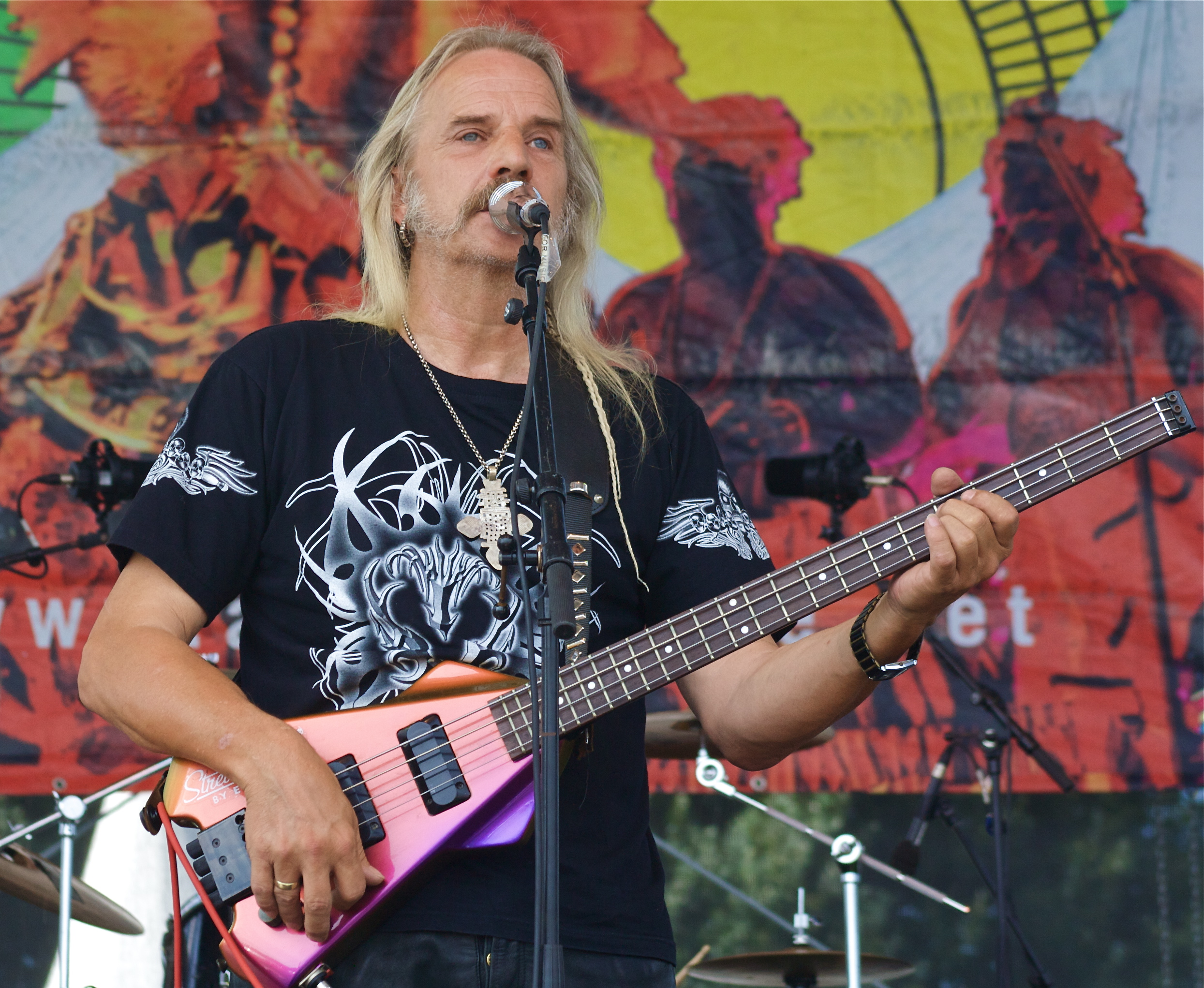 Supermax, Kurt Hauenstein, with opened eyes